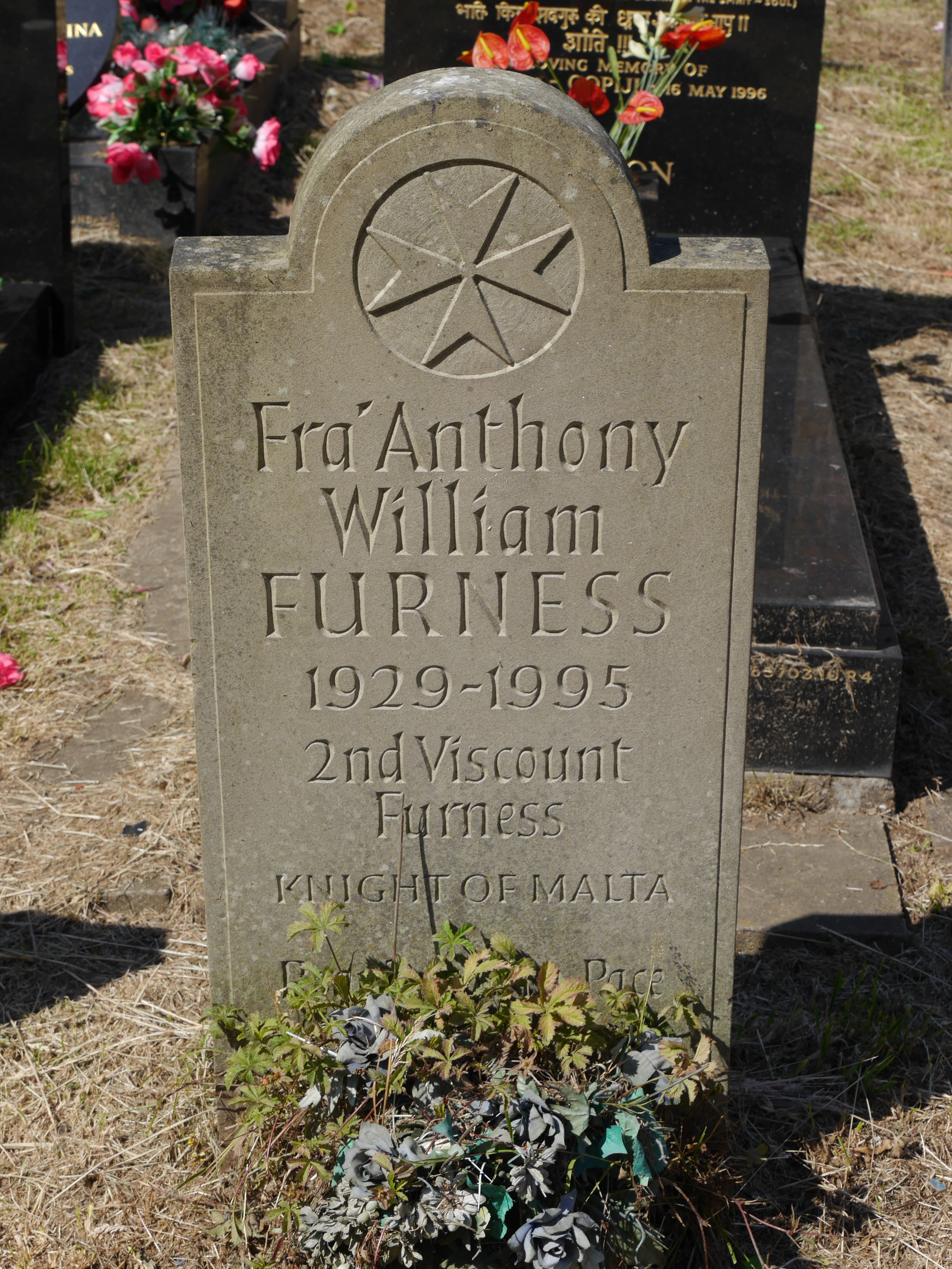 William Anthony Furness, Kensal Green Cemetery